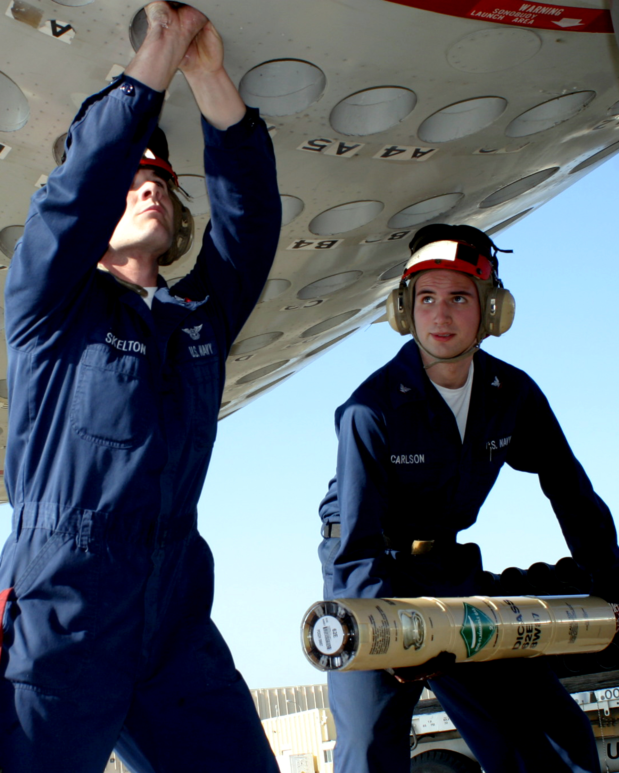 Sigonella, Sicily (Jan. 10, 2005) – Aviation Ordnanceman 3rd Class Nick Carlson, right, stands ready to hand a sonobuoy to Aviation Ordnanceman 2nd Class Jason Skelton during the loading of sonobuoys in an P-3C Orion assigned to the “Mad Foxes” of Patrol Squadron Five (VP—5). Sonobuoys are devices that are used to detect acoustic waves produced by ships and submarines. VP-5 is on a regularly scheduled deployment in support of the Global War on Terrorism. U.S. Navy photo by Photographer’s Mate 3rd Class Jesse L. Paquin (RELEASED)